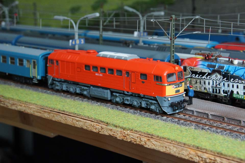 H0 scale modell of M62 263